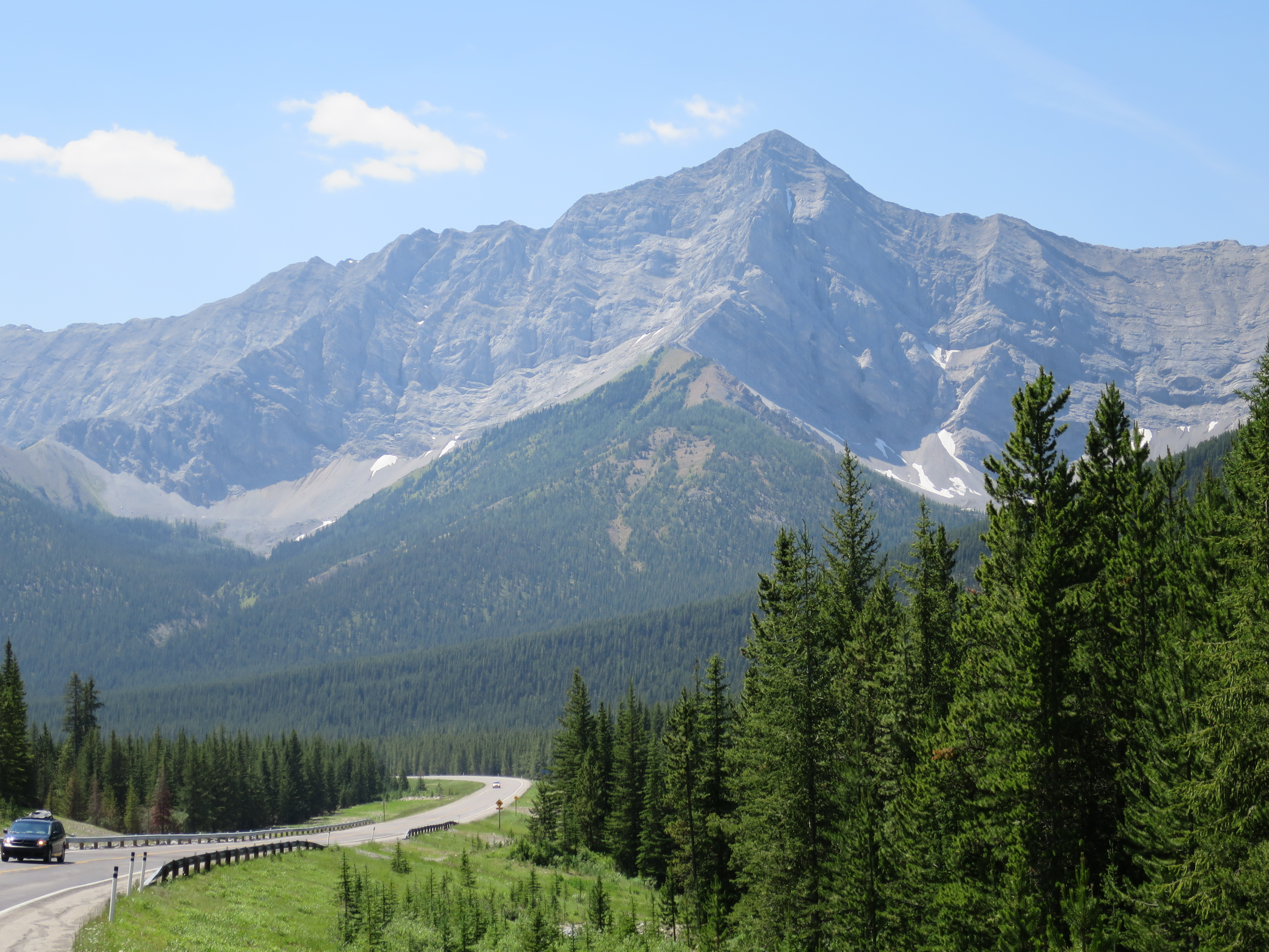 Storelk Mountain (2871m, Elk Range) from the Kananaskis Trail (Alberta Highway 40, Canada), Highwood River valley, ca. 2050m, Elbow-Sheep Wildland Provincial Park, looking SW.